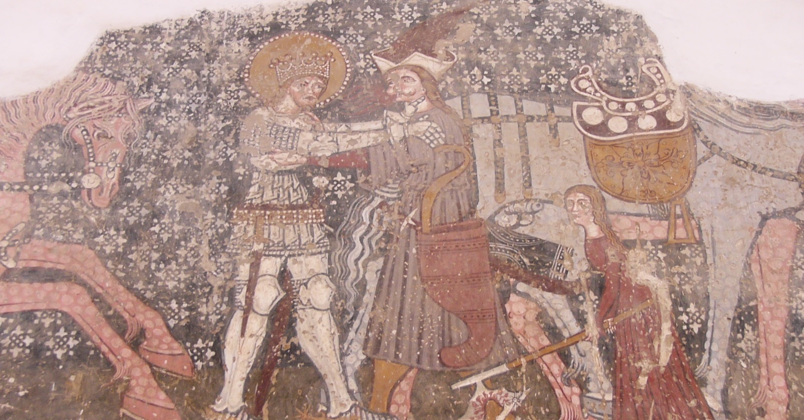 Dârjiu, murals in the Unitarian Church, Hungarian King Ladislaus I. of Hungary (left) fighting with a Cuman Warrior (right)